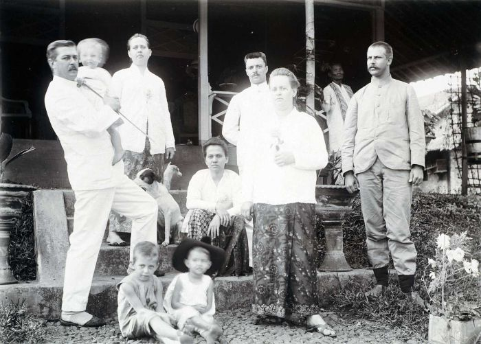 W.L. Harmsen with his family and guests at his house at Tjikadongdong